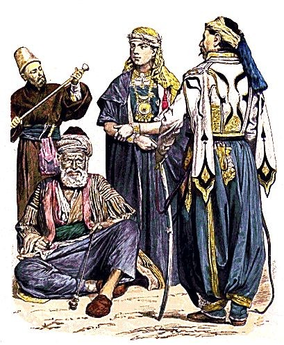 Late nineteenth century Syrian dress. Dervish, Syrian Peasant, Young Druse Woman, Karvass (Police Officer) in Damascus. From "Zur Geschichte der Kostüme", 1880, a German book with expired copyright. Made available here